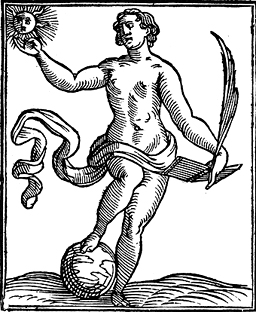 Allegory of the Truth bt Cesare d’Arpino in Iconologia